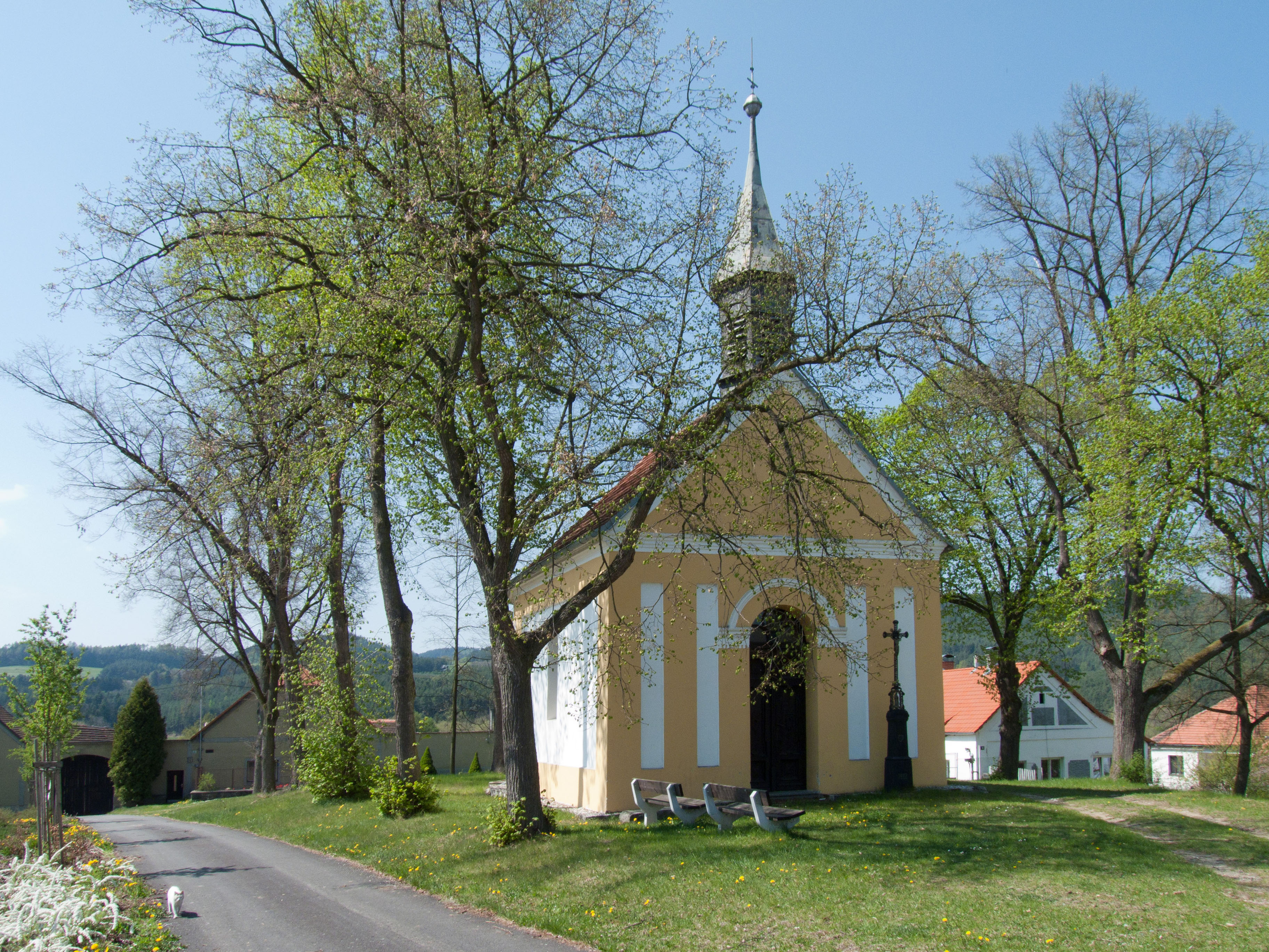 Chapel in the village of Strunkovice nad Volyňkou, Strakonice District, Czech Republic.